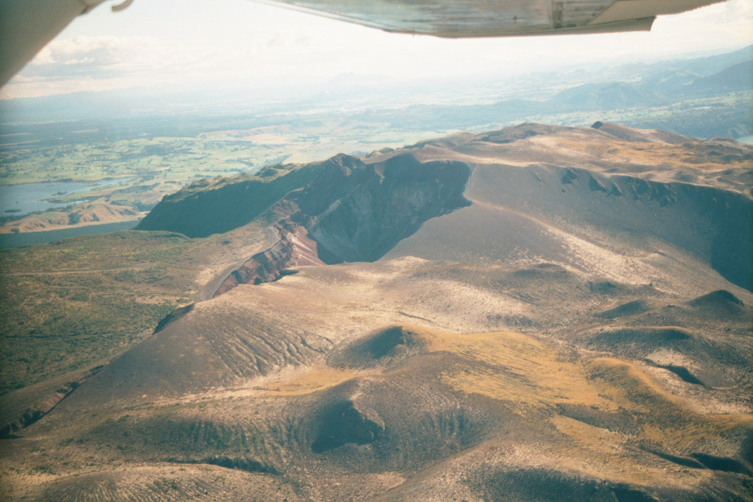 Aerial view of one of the craters on Mount Tarawera, Bay of Plenty region, North Island, New Zealand. The view is from the north, and part of Lake Rerewhakaaitu is visible on the left. Taken during a seaplane ride out of nearby Rotorua.